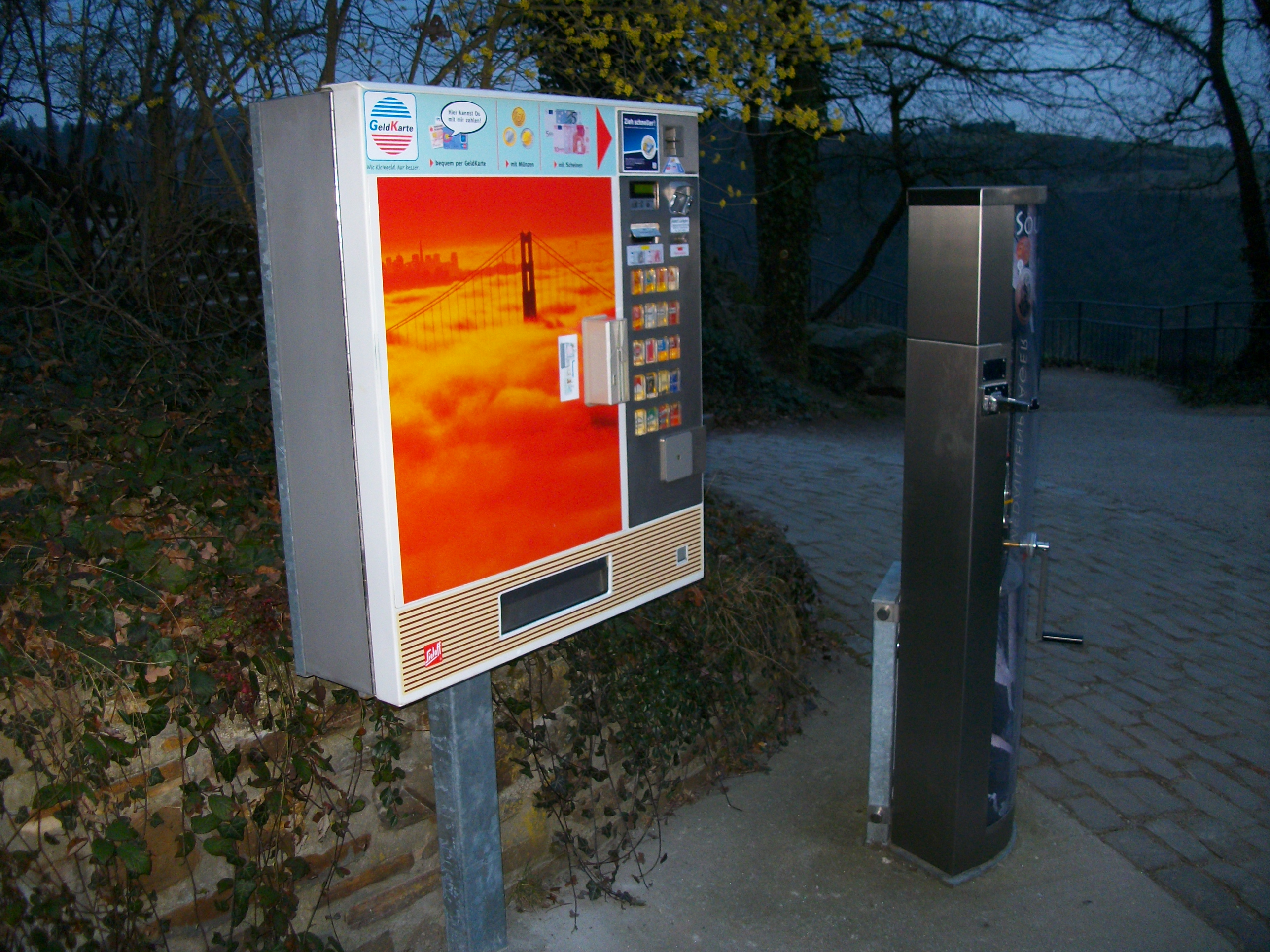 Modern cigarette machine with paper money payment and ID card reader